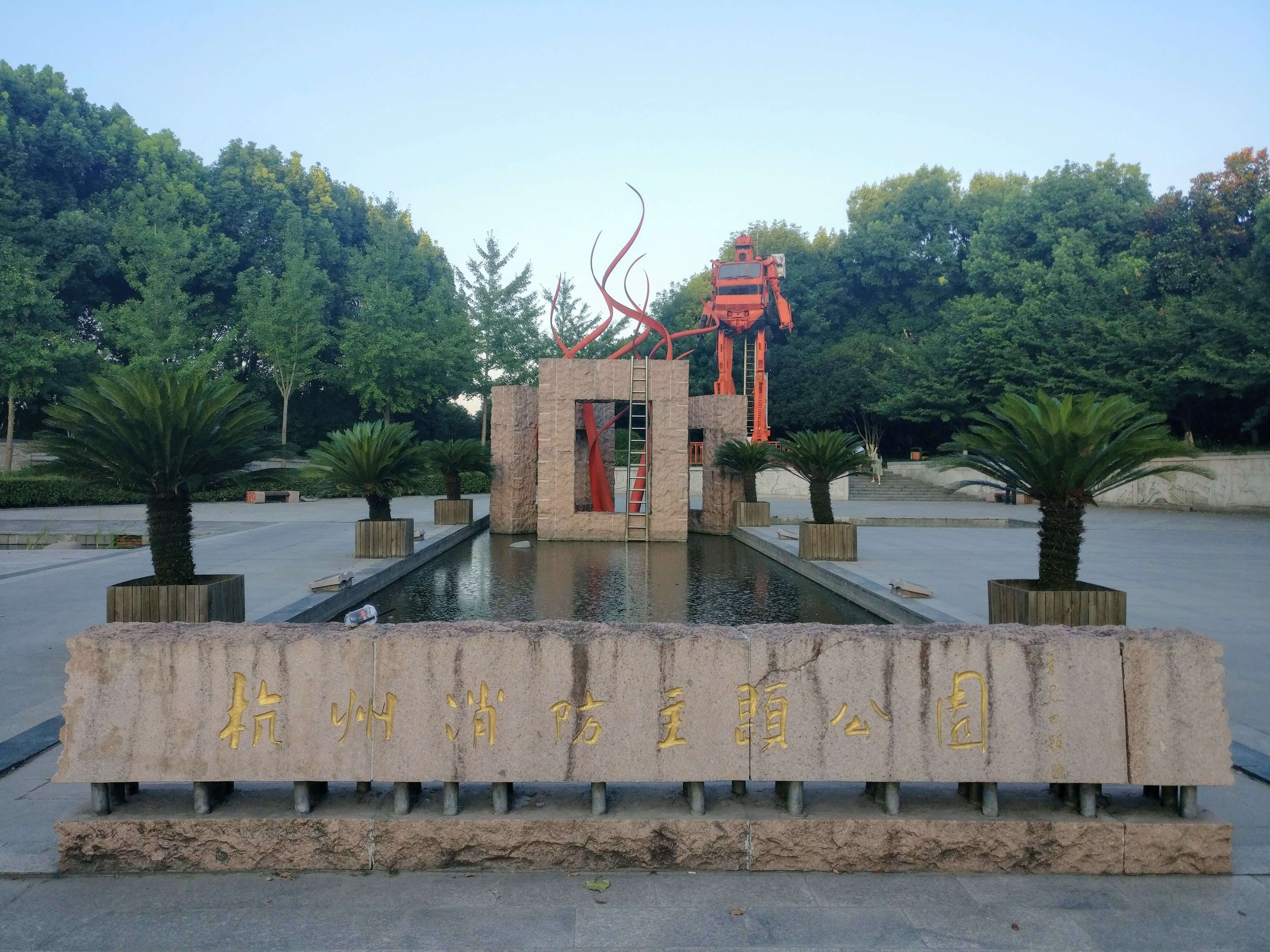 The entrance of Hangzhou firefighting theme park. 中文（中国大陆）: 杭州消防主题公园入口